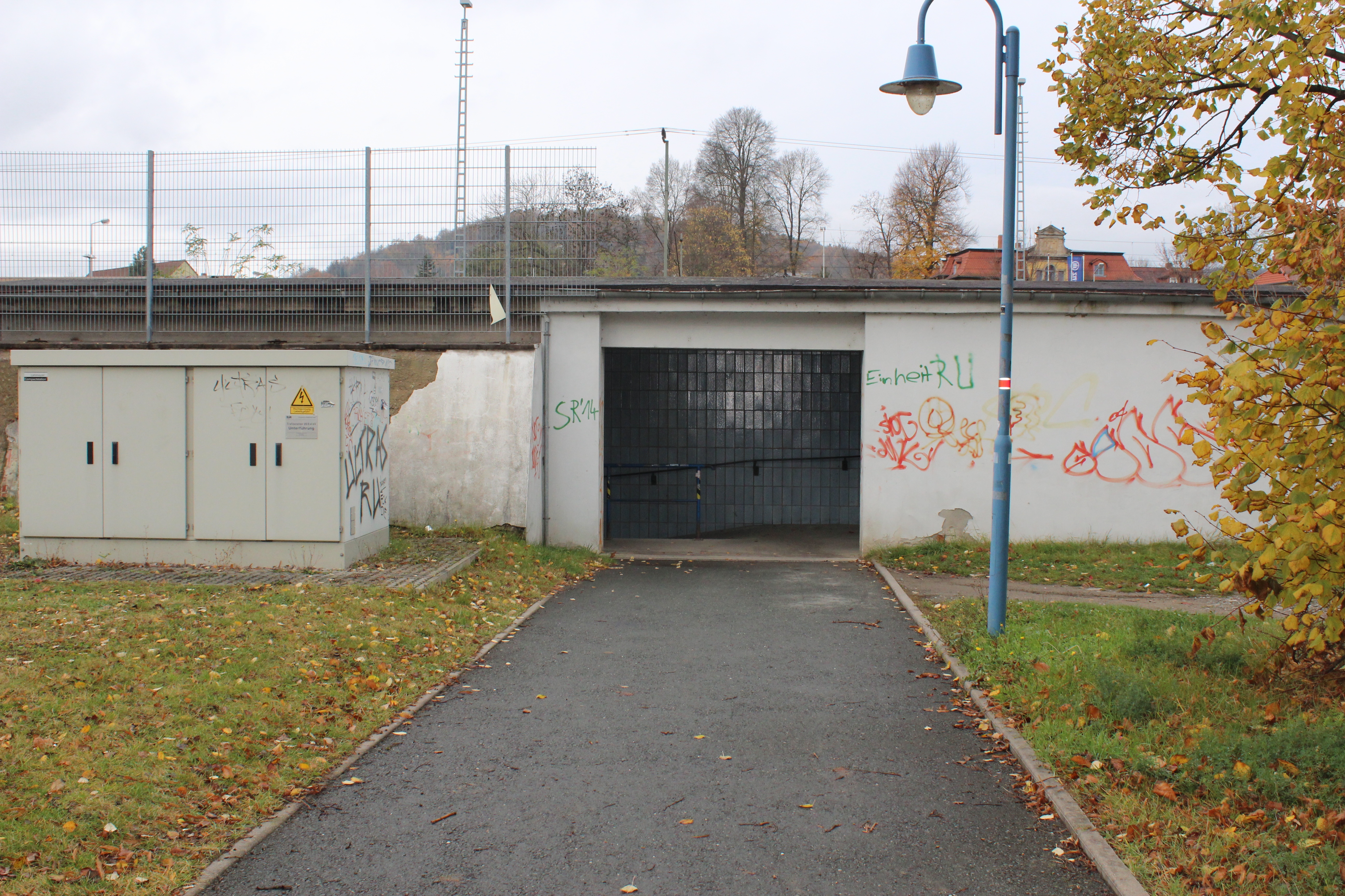 train station Rudolstadt-Schwarza, eastern entrance